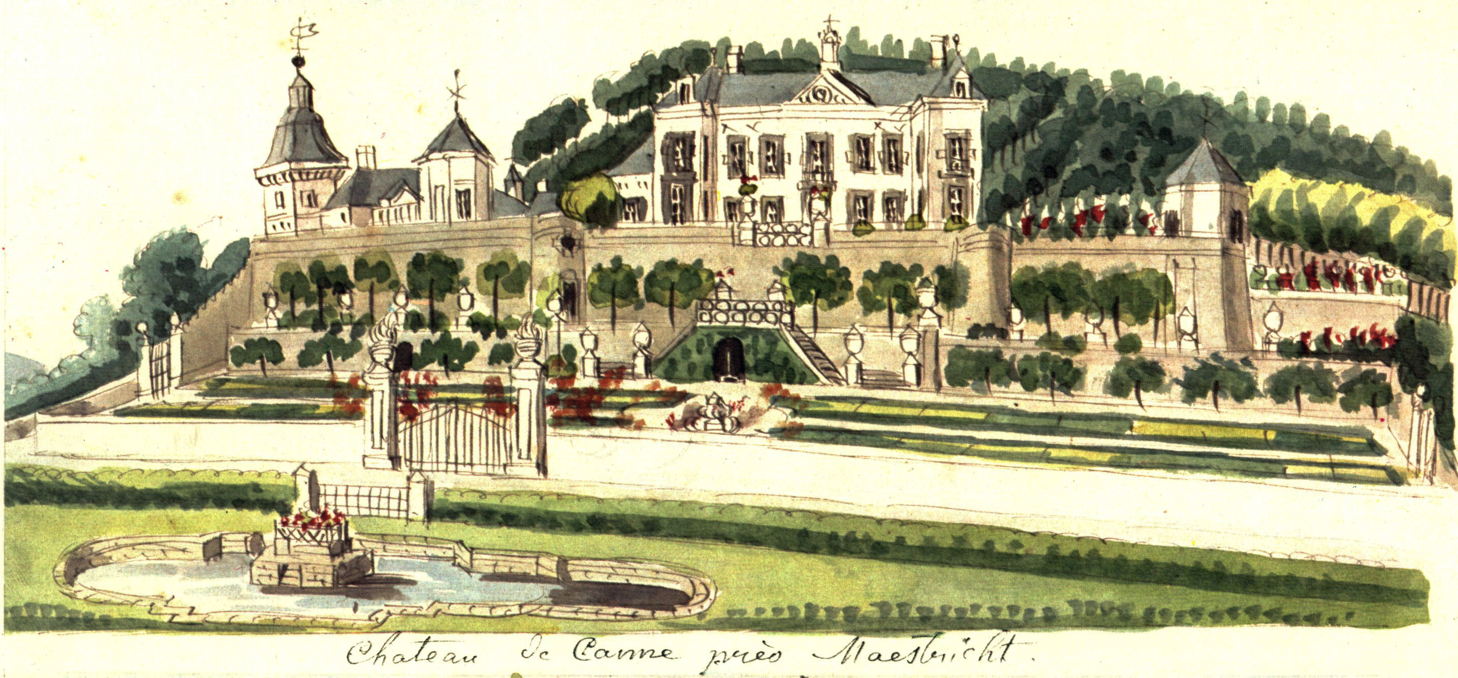 View of Neercanne Castle in Maastricht, Limburg, the Netherlands. Drawing by Philippus van Gulpen (c 1840-60)